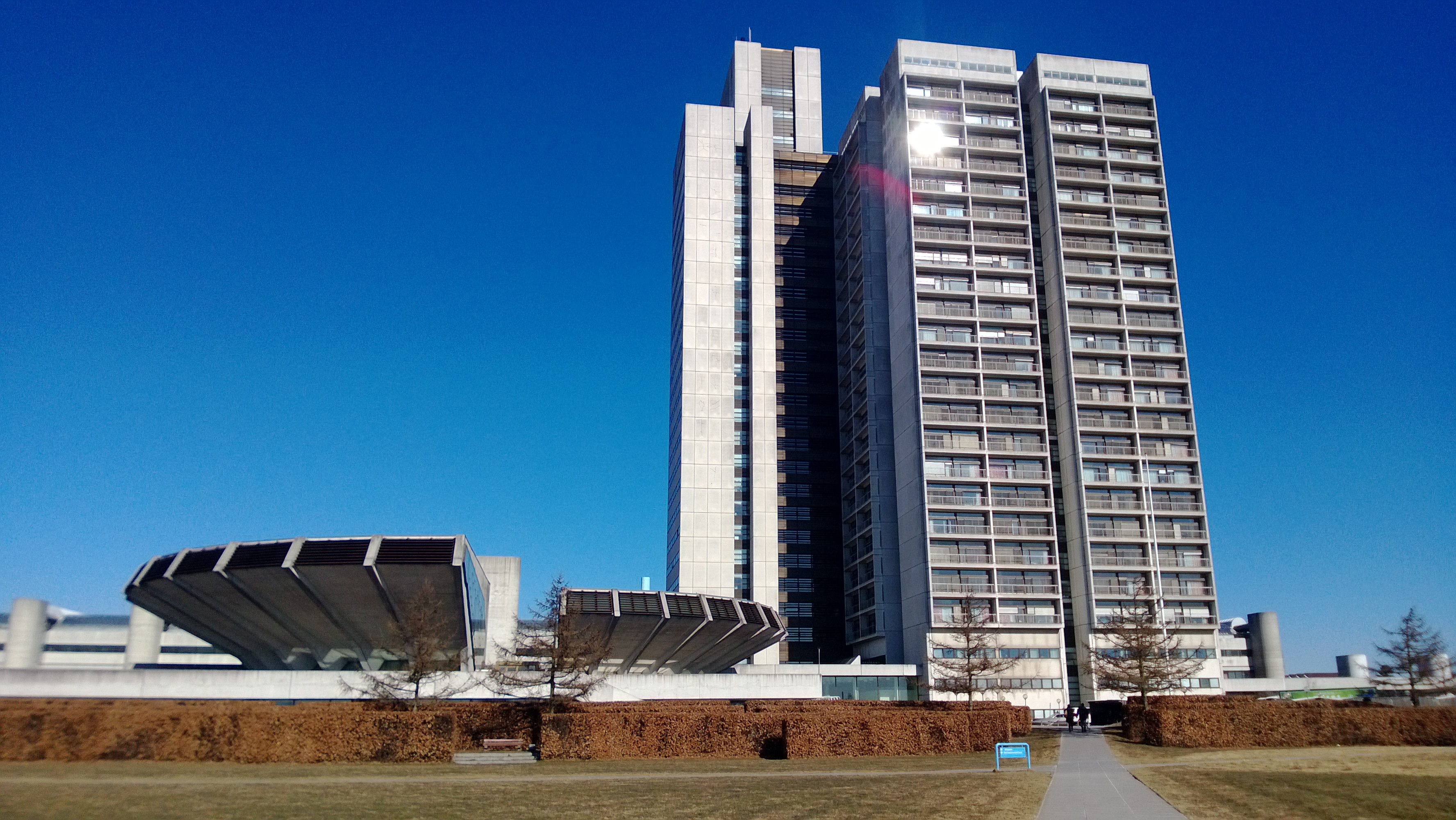 Picture of Herlev hospital taken from south side from March 2012